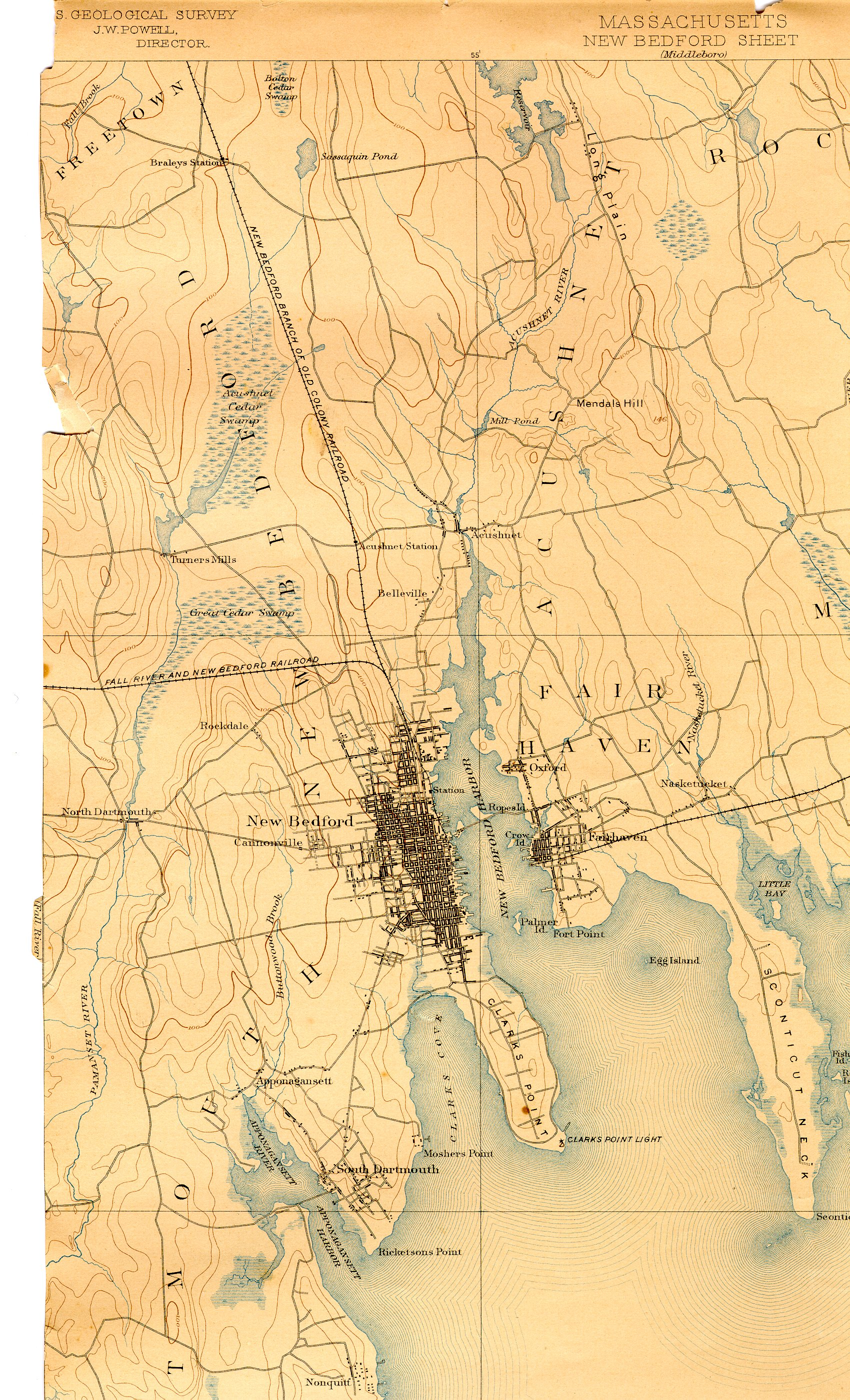 Map of Acushnet River and environs near Fairhaven, Massachusetts.